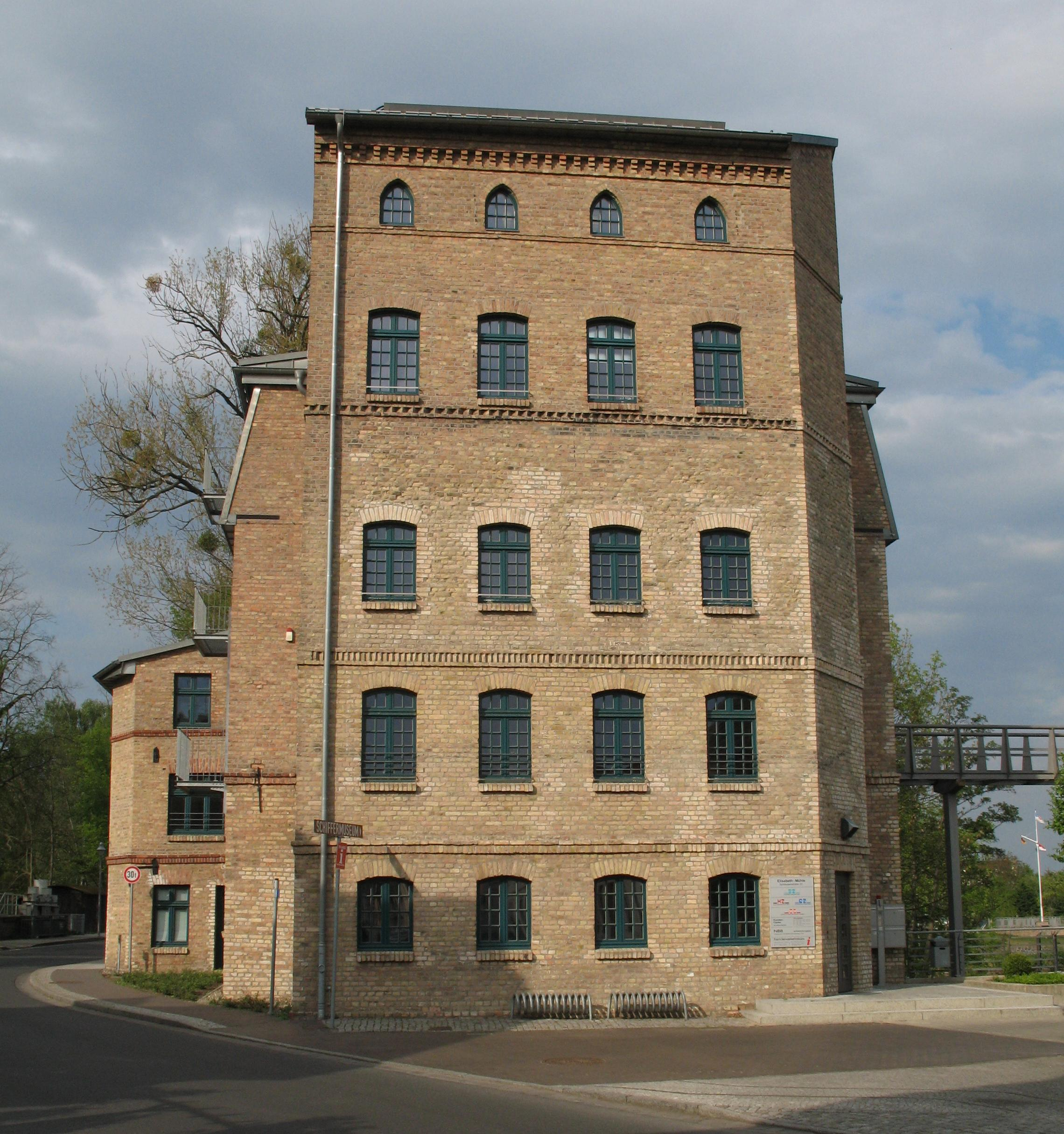 Former mill in Zehdenick in Brandenburg, Germany